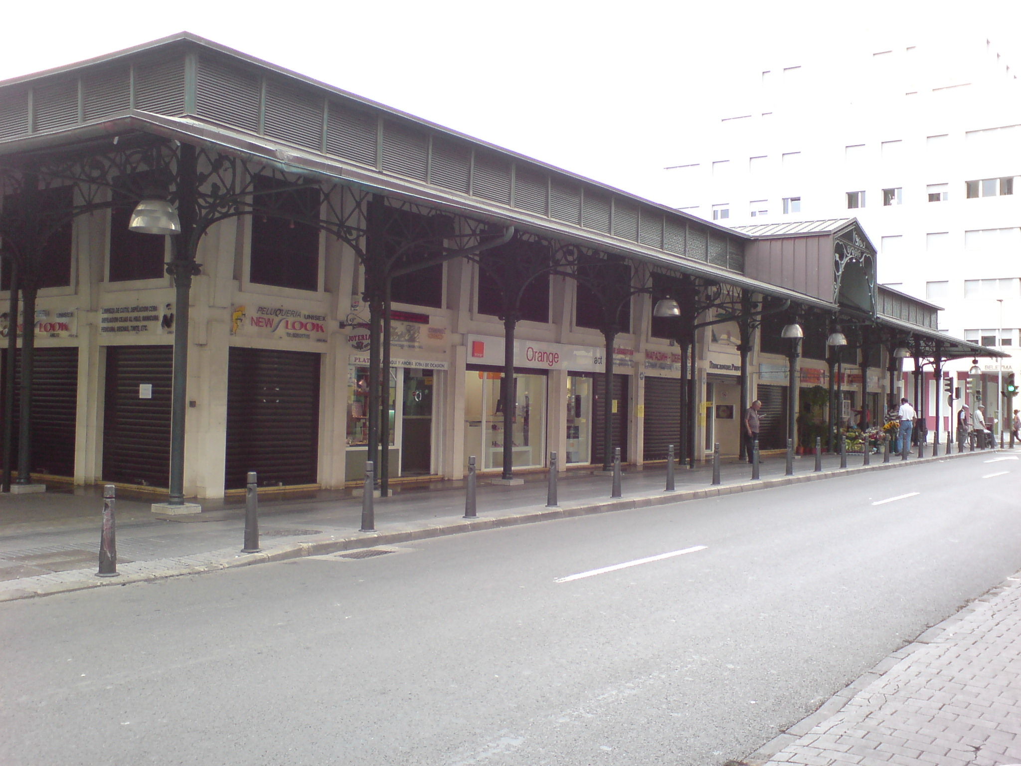 "Mercado del Puerto" (Market of the Port). Market of supplies located in a modernist building, between the Port of Las Palmas and the Las Canteras Beach, constructed forged in 1891 and reformed in 1994. Las Palmas de Gran Canaria (Gran Canaria, Canary Islands. Spain)